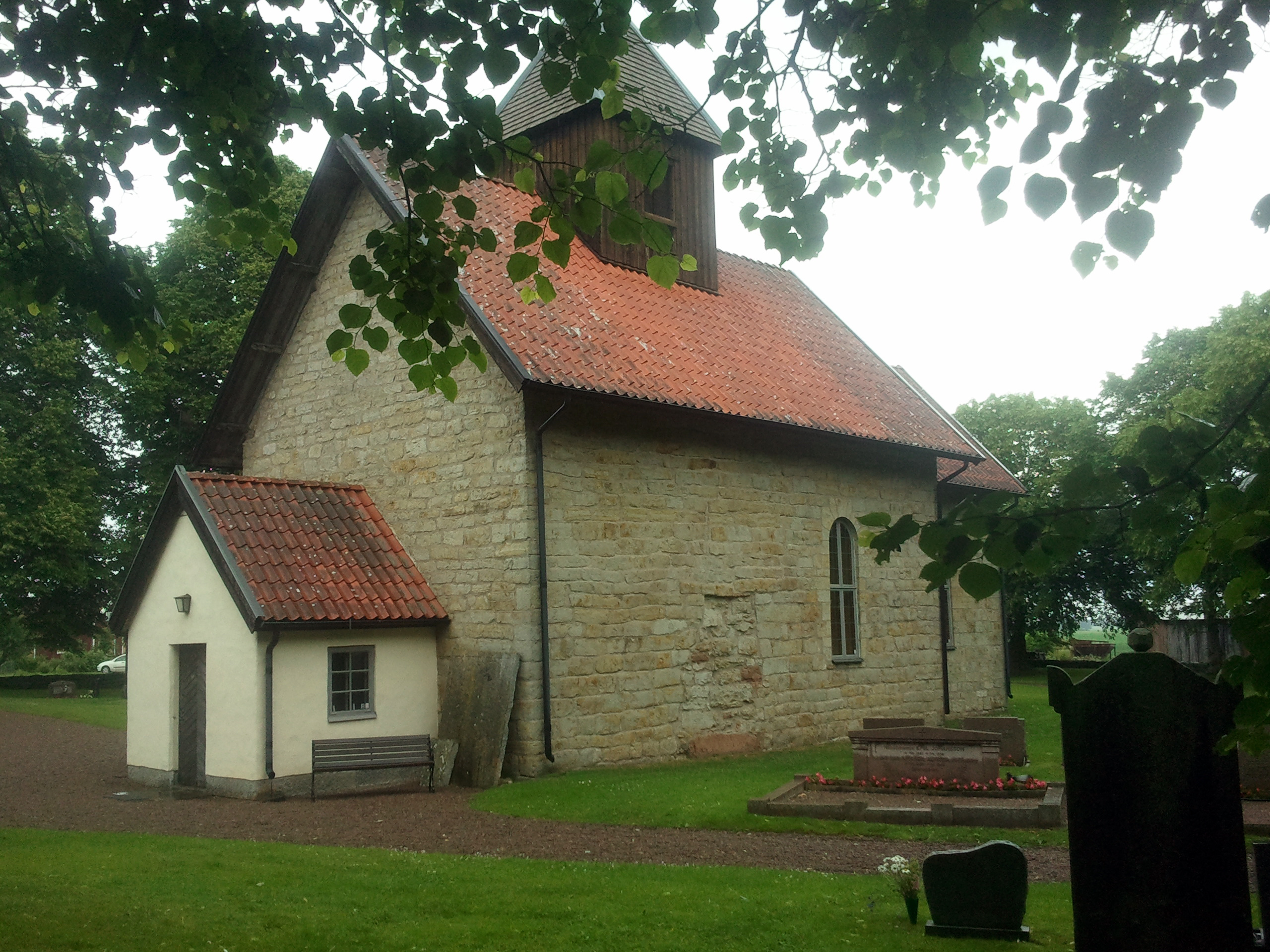 Kestad church